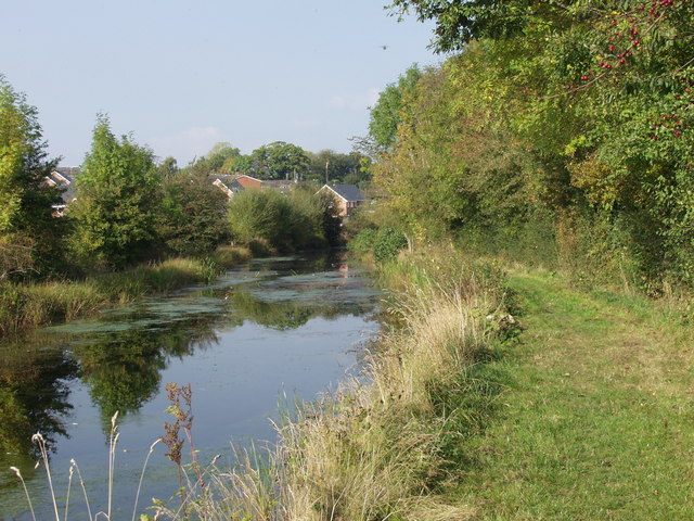 Montgomery Canal at Arddlin. This is about the furthest north you can go on the navigable section centred around Y Trallwng (Welshpool).